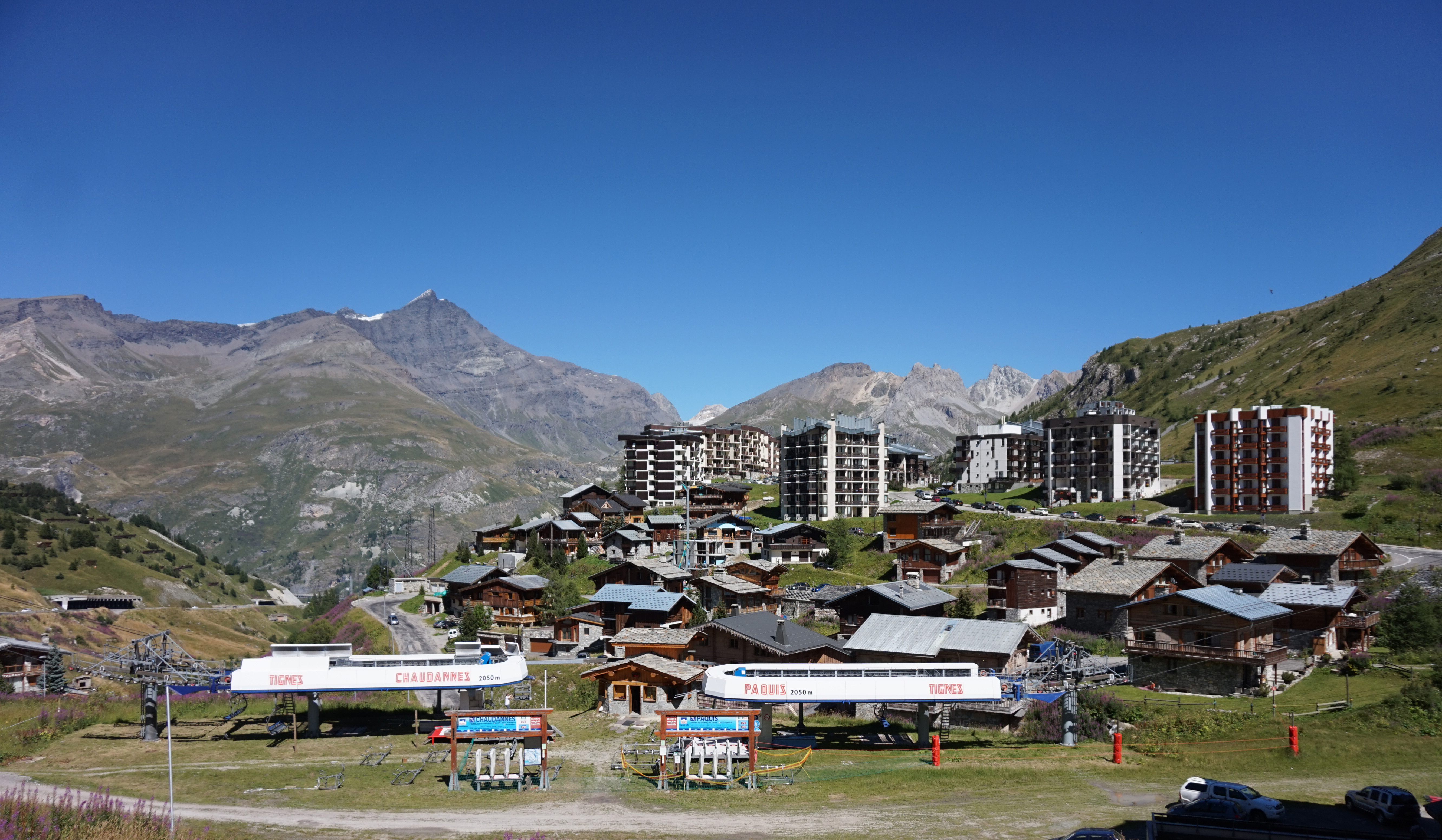 The district Le Lavachet in Tignes, France. This photograph was taken with a Sony Alpha a5000.